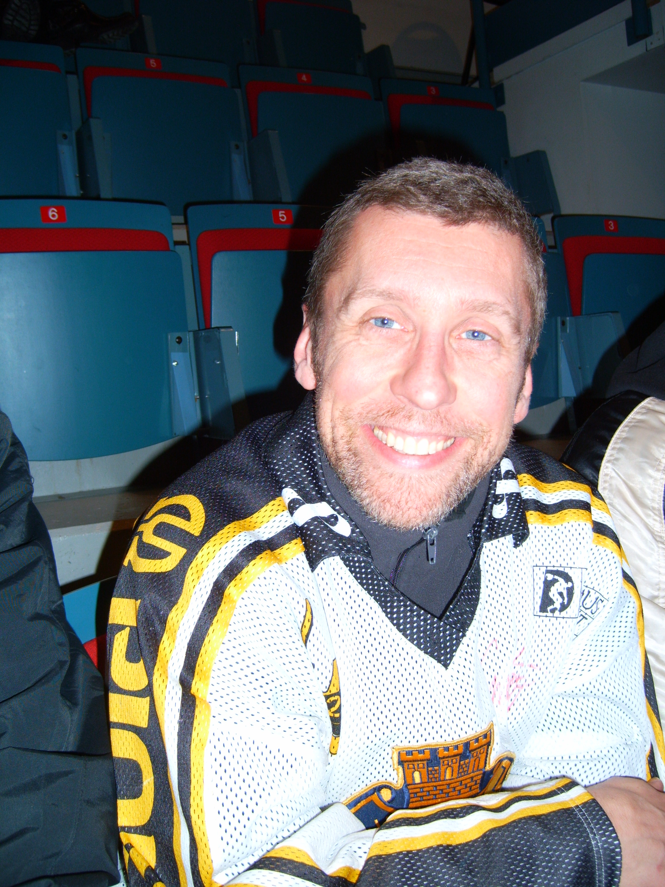 Pererik Åberg, Swedish meteorologi.